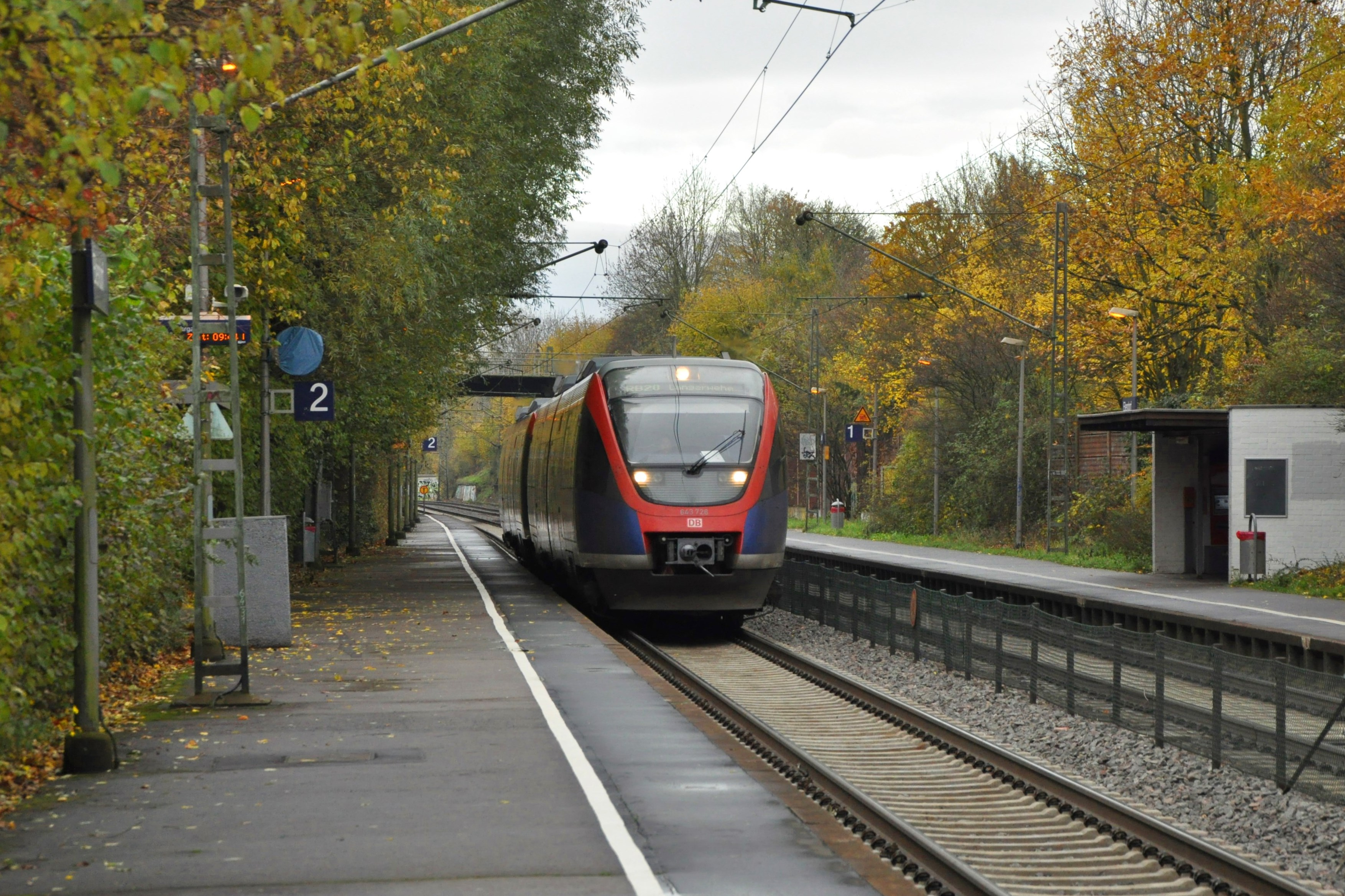 Euregiobahn unit 643 226 stopping at Eilendorf station. (November 2012)